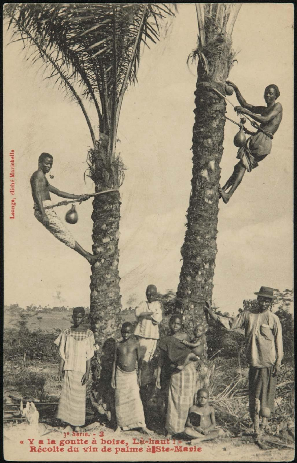 Between 1950 and 2011, acquired by Leonard A. Lauder, New York, from various postcard dealers in the United States, Canada and Europe; 2012, gift of Leonard A. Lauder to the MFA. (Accession Date: April 25, 2012) Credit Line Leonard A. Lauder Postcard Archive—Gift of Leonard A. Lauder Poscard - Front: 3e Série, 3 Back: divided. Mint Collotype on card stock Dimensions : Vertical: Overall: 14 x 8.9 cm (5 1/2 x 3 1/2 in.) Accession number : 2012.4448 Collections : Africa and Oceania, Prints and Drawings